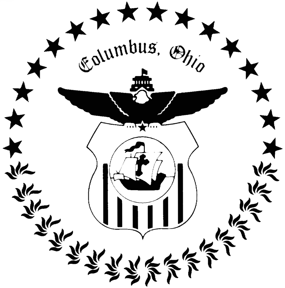 Seal of Columbus, Ohio.